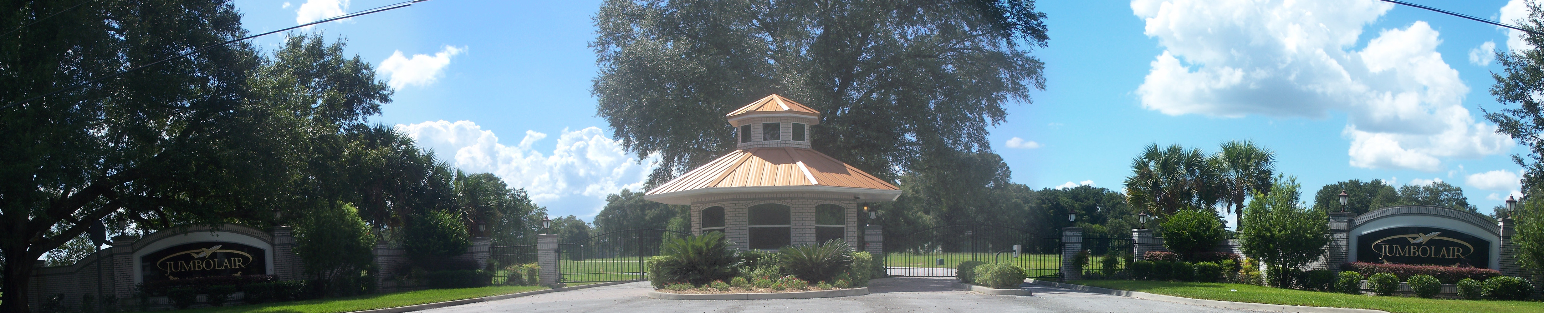 Anthony, Florida: Entrance to Jumbolair, a gated aviation community in the area. One of the more famous residents is John Travolta. Panorama view.